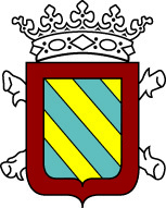 logo The Royal Academies for Science and the Arts of Belgium (ARB)